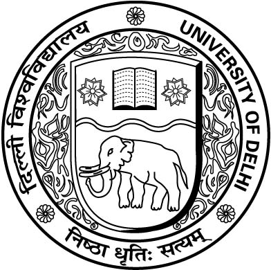 This is an official emblem of the University of Delhi with "Elephant, Book and Lotus" with the inscription "निष्ठा धृति: सत्यम्" in Sanskrit. The emblem was conceived by Pt. Lachmi Dhar Kalla (1891–1953), Founder Head of the then Department of Oriental Languages of university. The current version (as vector graphics) was re-drawn by Dr. Sanjay Kapoor of the department of Plant Molecular Biology, University of Delhi South Campus in 2014